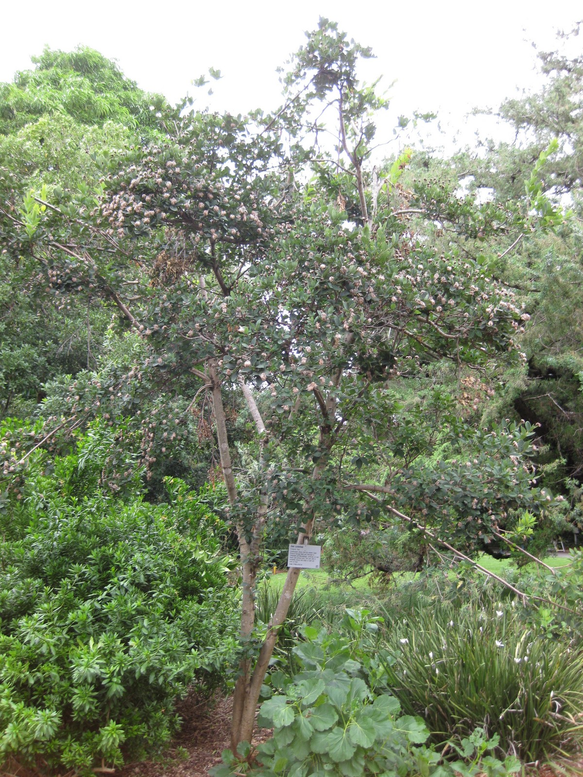 Photographed at the Royal Botanic Gardens Sydney (Australia) in January